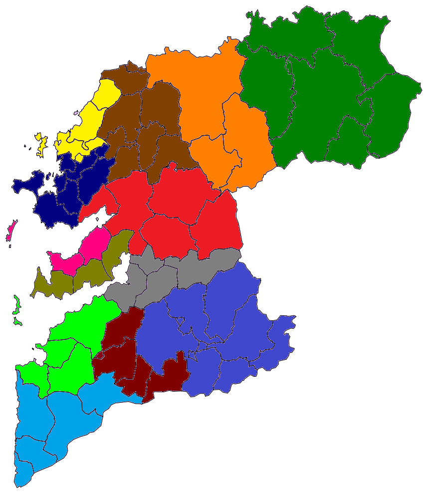 Law parties of Pontevedra